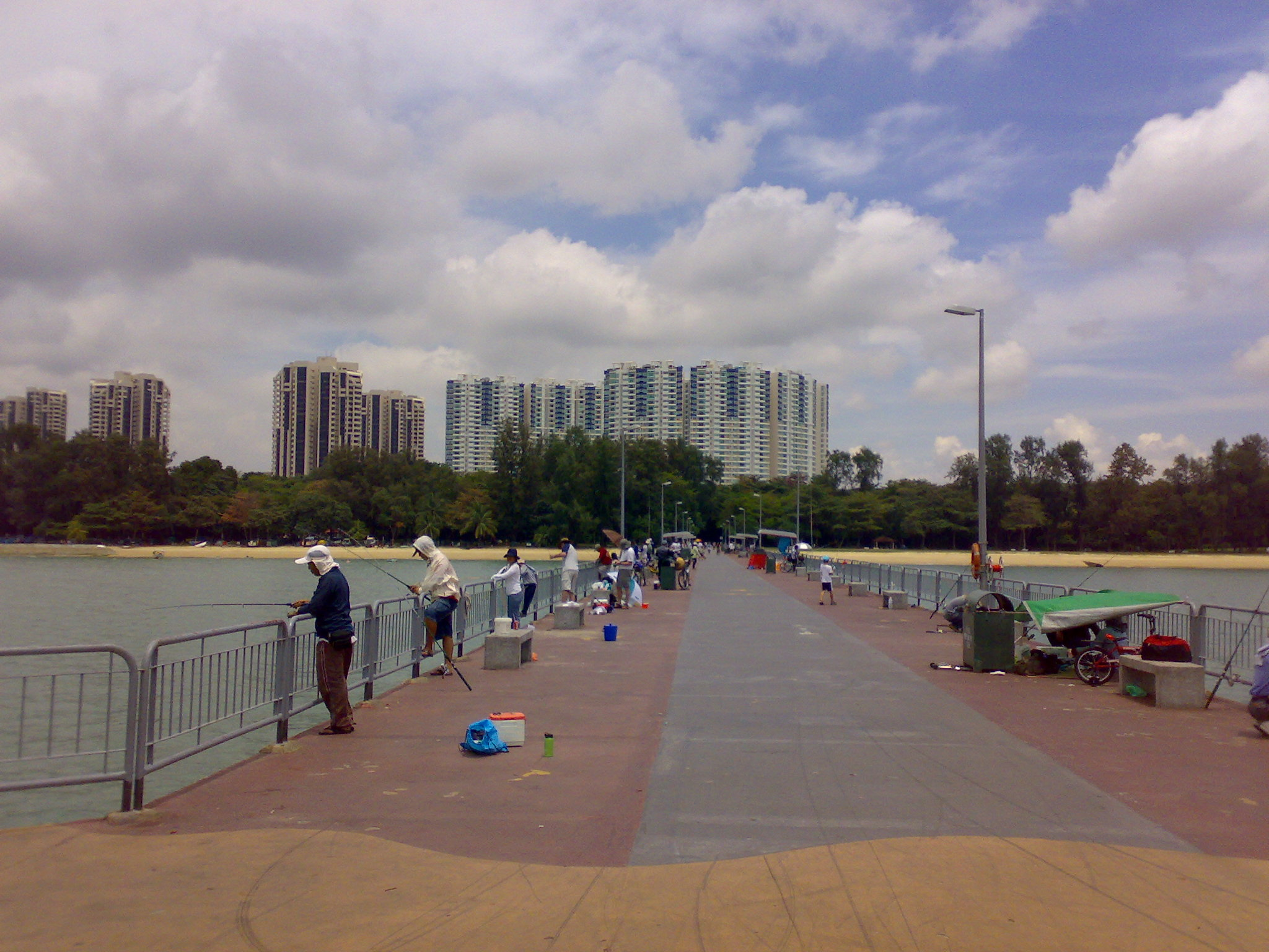 Bedok Jetty, Singapore.